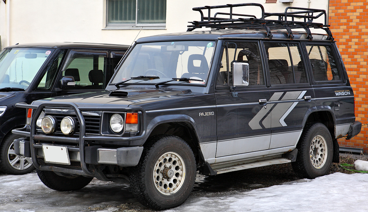 First generation Mitsubishi Pajero Mid-roof Wagon 2.5 DTi ( L149GW )